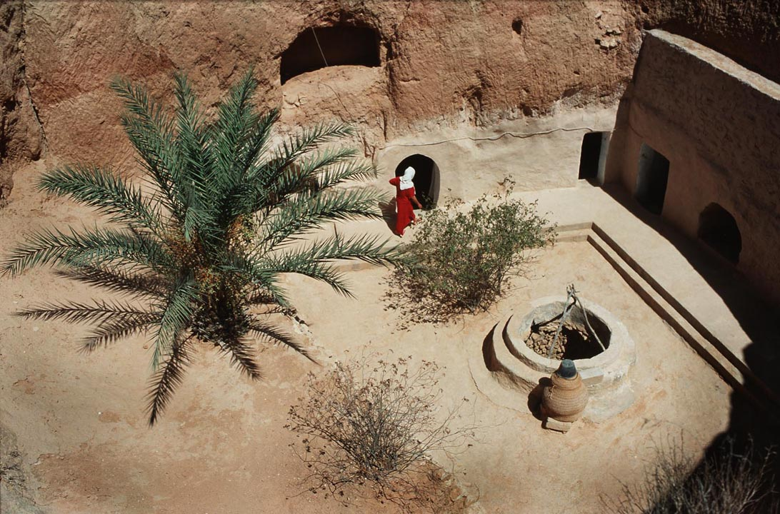 Underground house in Matmata - Tunisia